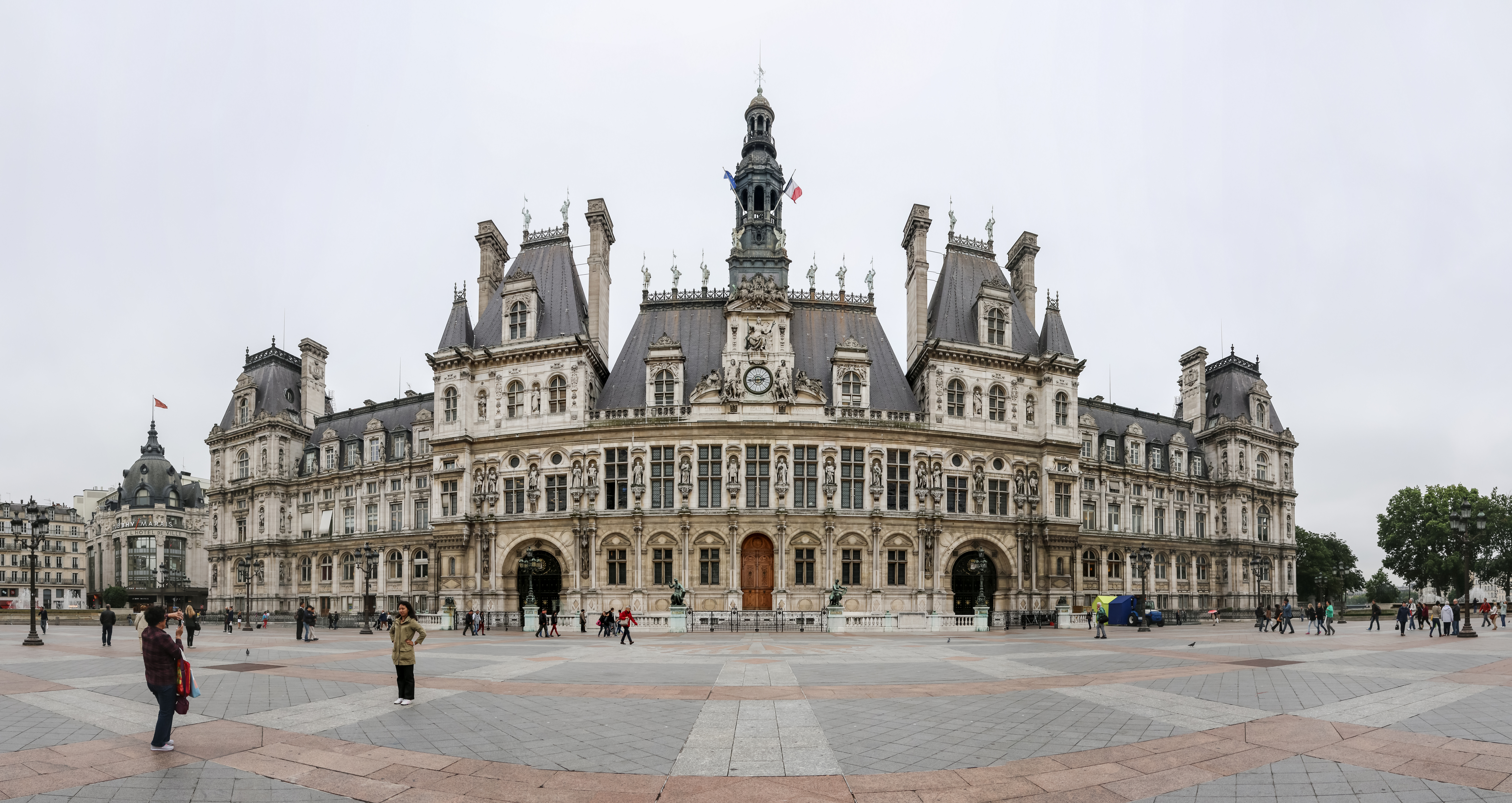 Hôtel de Ville, Paris, France .